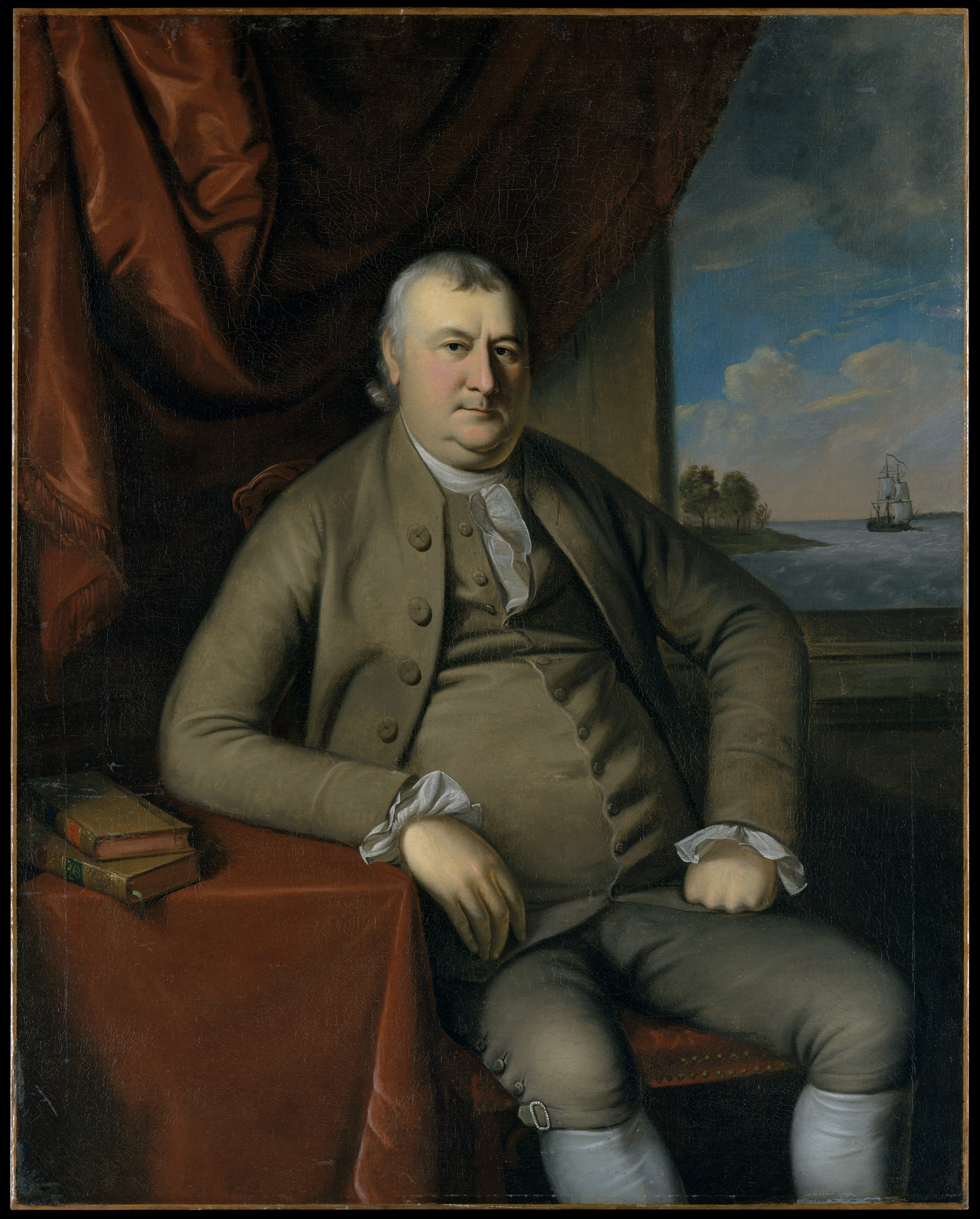 Samuel Mifflin (1724–1781), an affluent Philadelphia businessman, commissioned this portrait and its pendant (22.153.2) in 1777. An ardent patriot, he commanded three artillery battalions and served on Pennsylvania’s Council of Safety during the Revolutionary War. He also contributed a large sum to the fund established to equip George Washington’s army. This work shows the strong influence of John Singleton Copley. Like Copley, Peale conveyed an impression of importance by means of a sumptuous setting and a firm and frank presentation of the sitter’s portly person. The glimpse of sea and ship through the window alludes to Mifflin’s mercantile success.